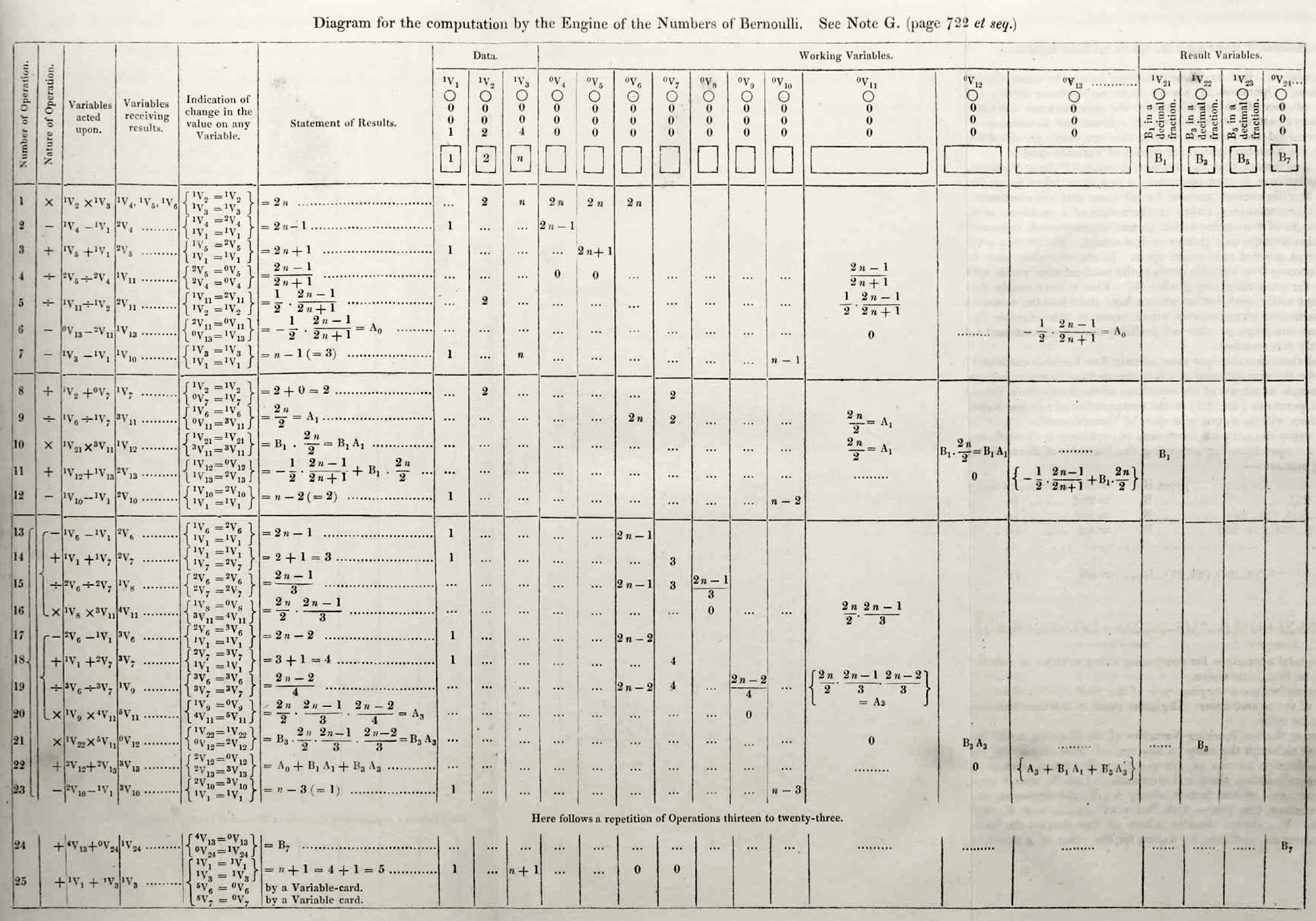 Diagram of an algorithm for the Analytical Engine for the computation of Bernoulli numbers, from Sketch of The Analytical Engine Invented by Charles Babbage by Luigi Menabrea with notes by Ada Lovelace